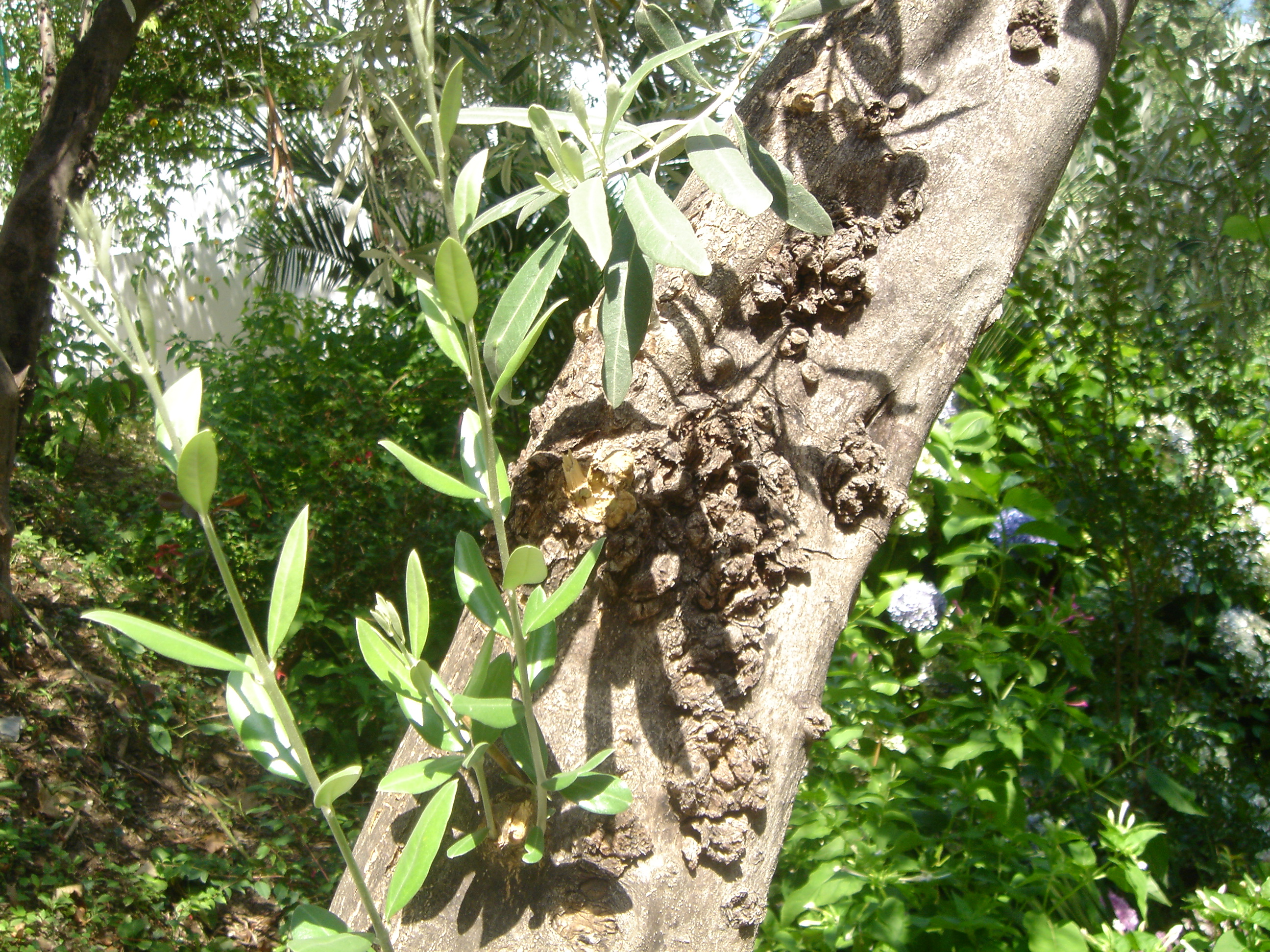 Infection of olive tree by Pseudomonas syringae subsp. savastanoi pv. oleae / found in Greece, Pilion